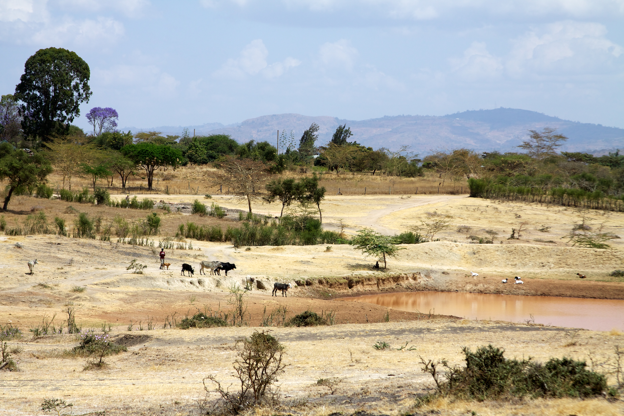 A local farmer takes his cattle down to the pond